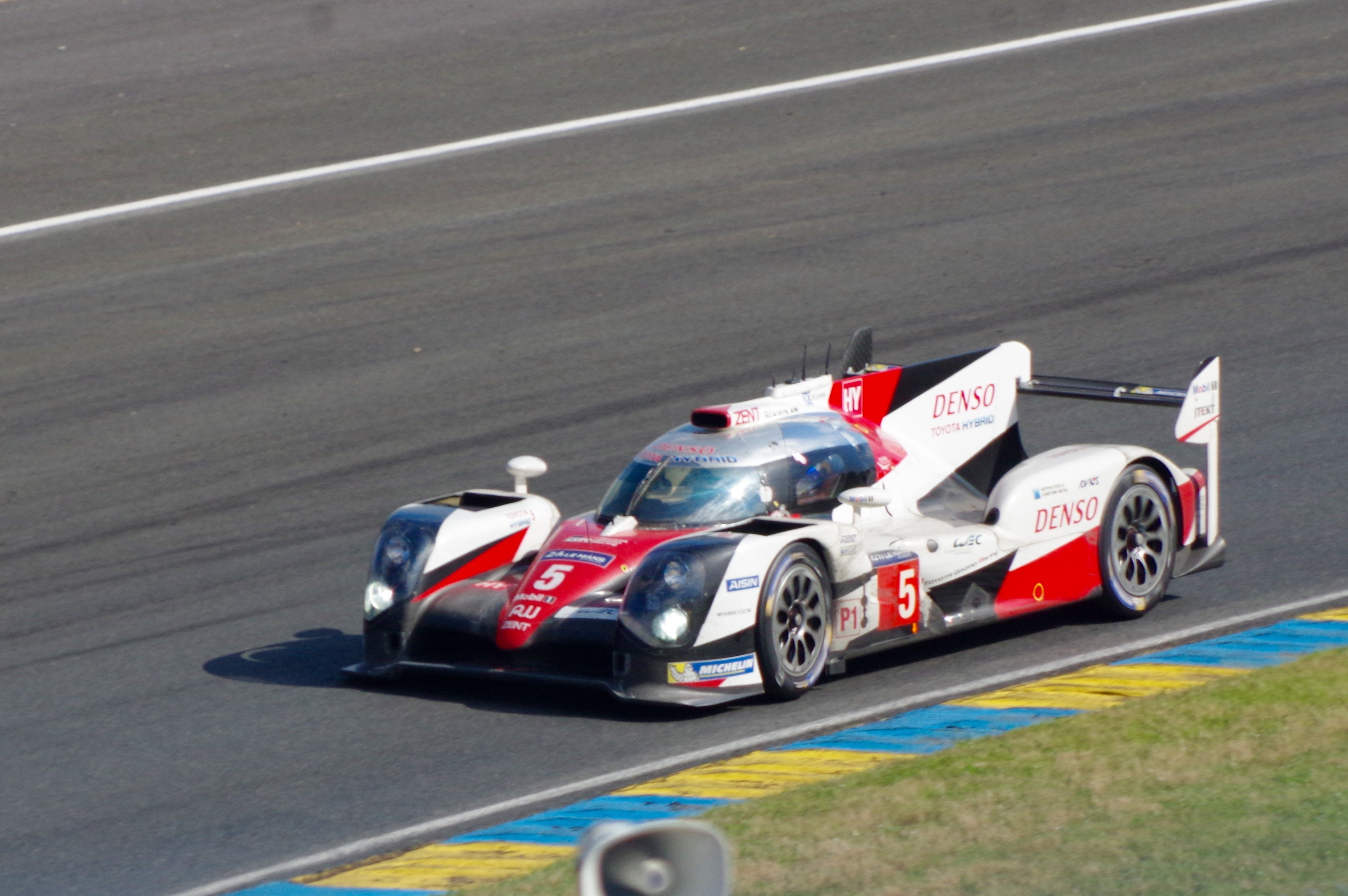 The No. 5 Toyota TS050 Hybrid driven by Anthony Davidson, Sébastien Buemi and Kazuki Nakajima during the 2016 24 Hours of Le Mans